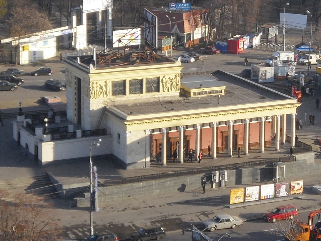 Dinamo metro station in Moscow